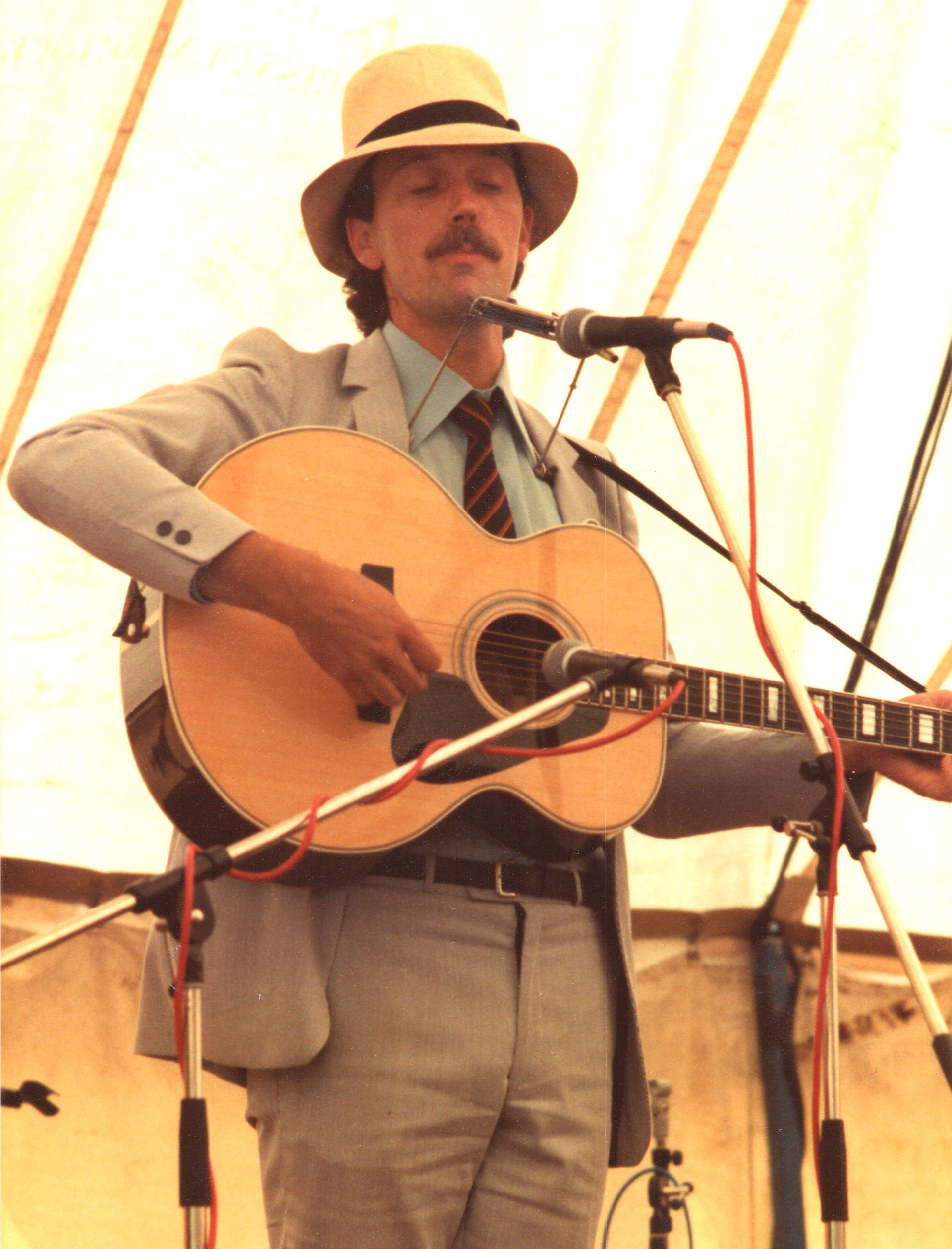 Brian Cookman, UK folk/blues performer on stage at the 1982 Trowbridge Village Pump Folk Festival (Tony Rees photograph)